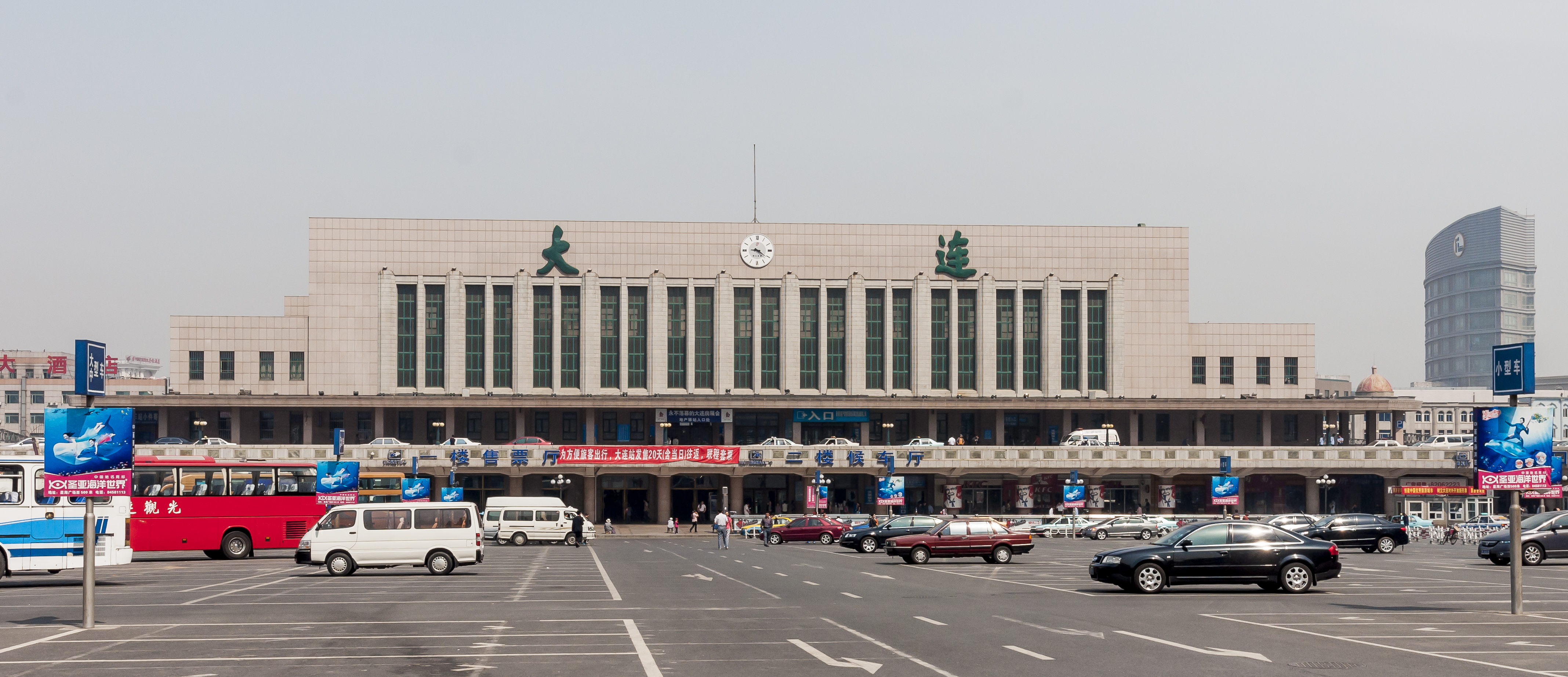 Dalian, Liaoning, China: Dalian Railway Station